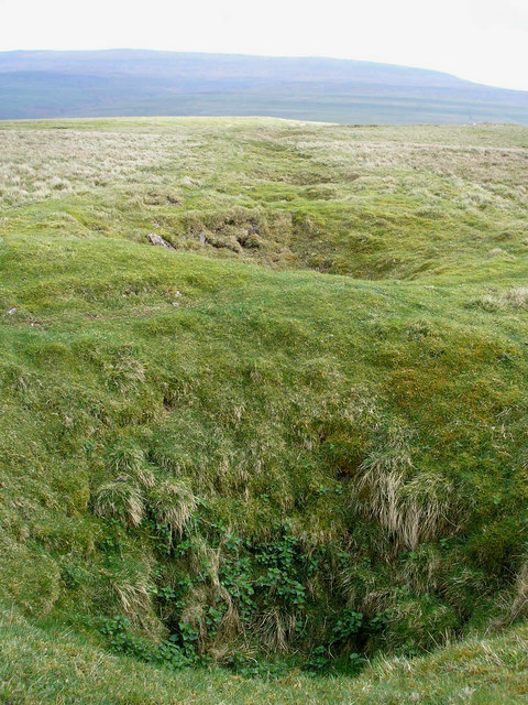 Bell pits A line of bell pits following the seam of lead. This area has dozens of these pits as well as shake holes perforating the ground. Great Whernside is in the distance.